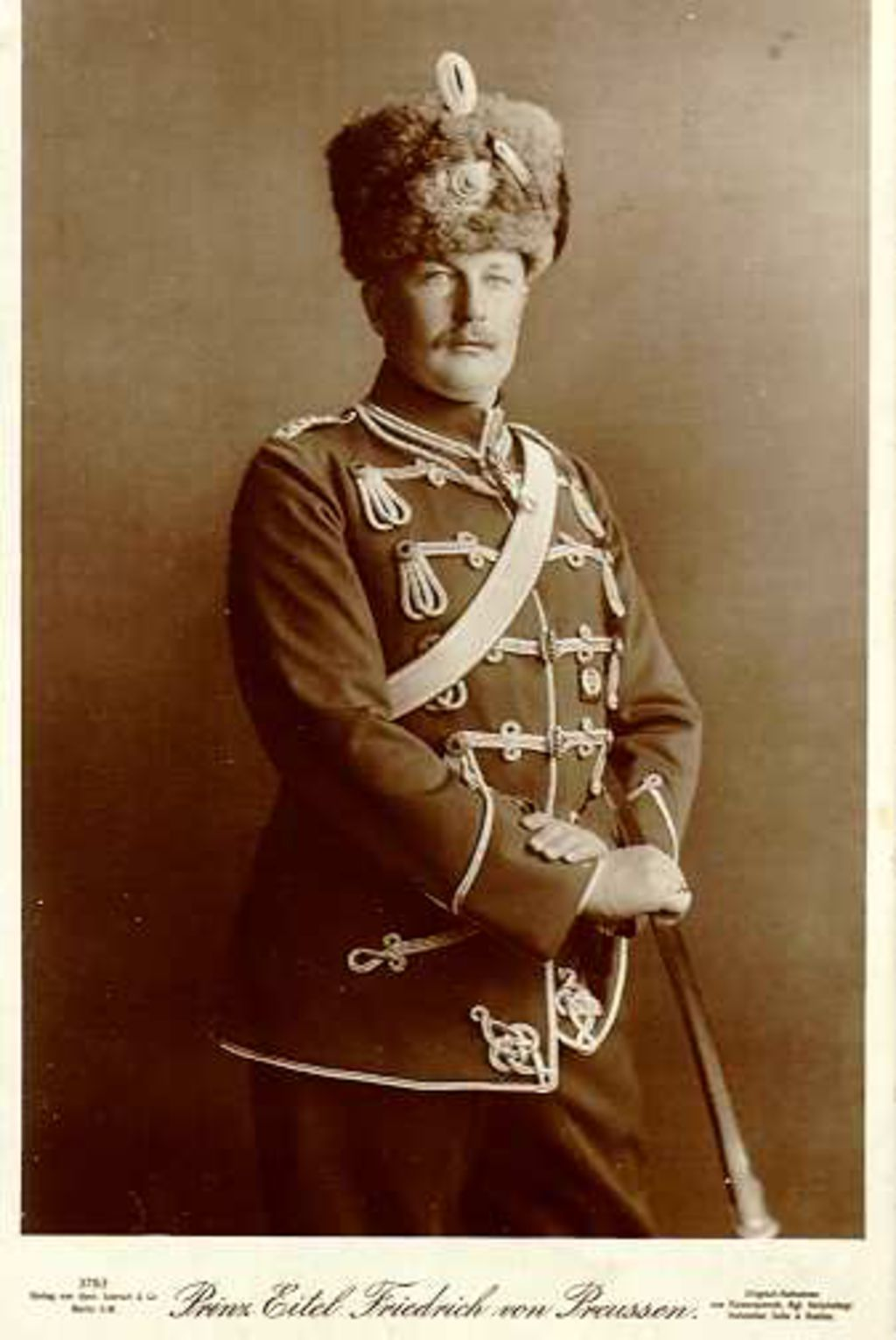 Postcard showing Prince Eitel Friedrich of Prussia wearing a Hussar's uniform, ¾-length portrait.